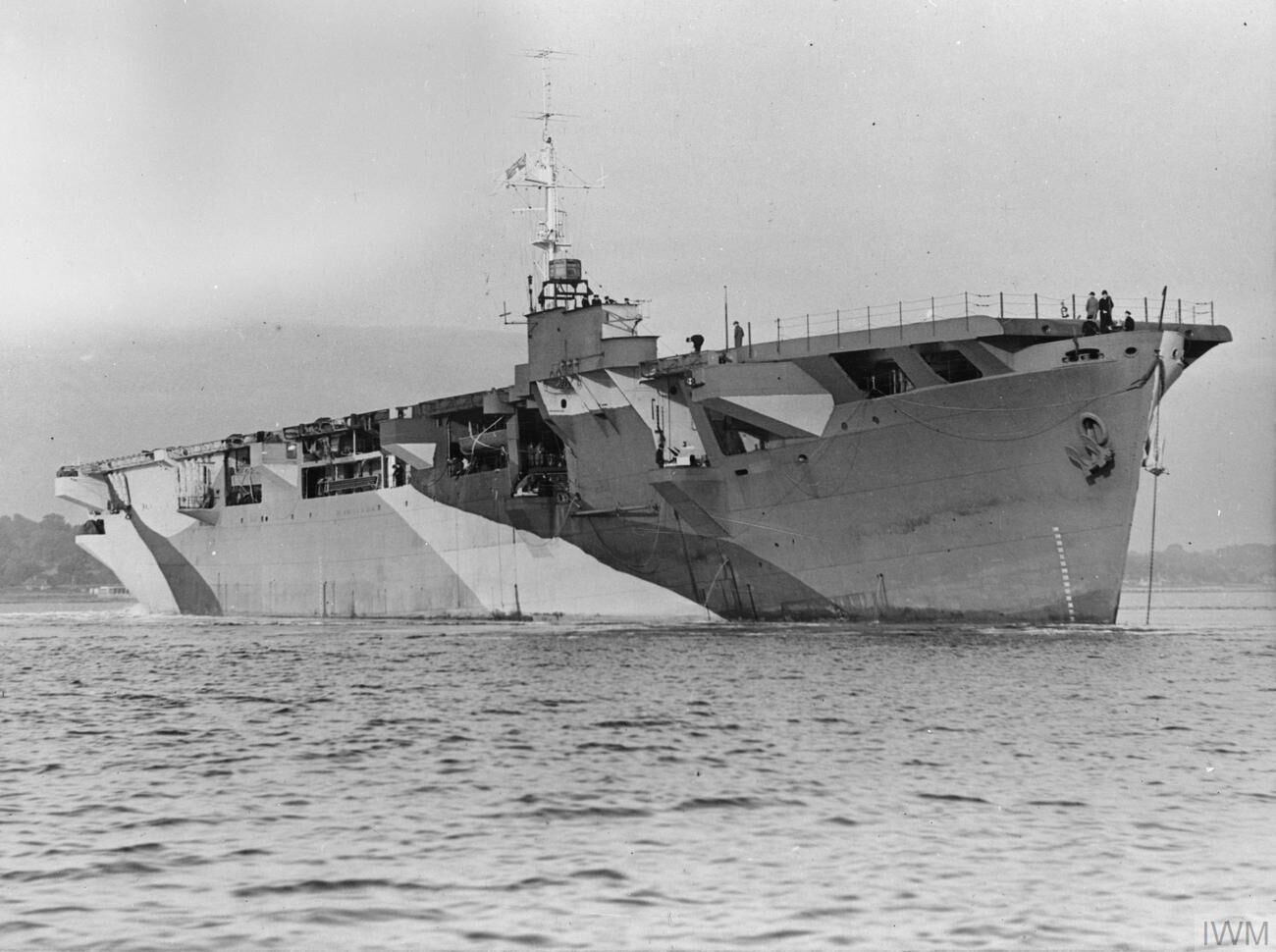 British escort aircraft carrier HMS ACTIVITY underway in the Firth of Forth.